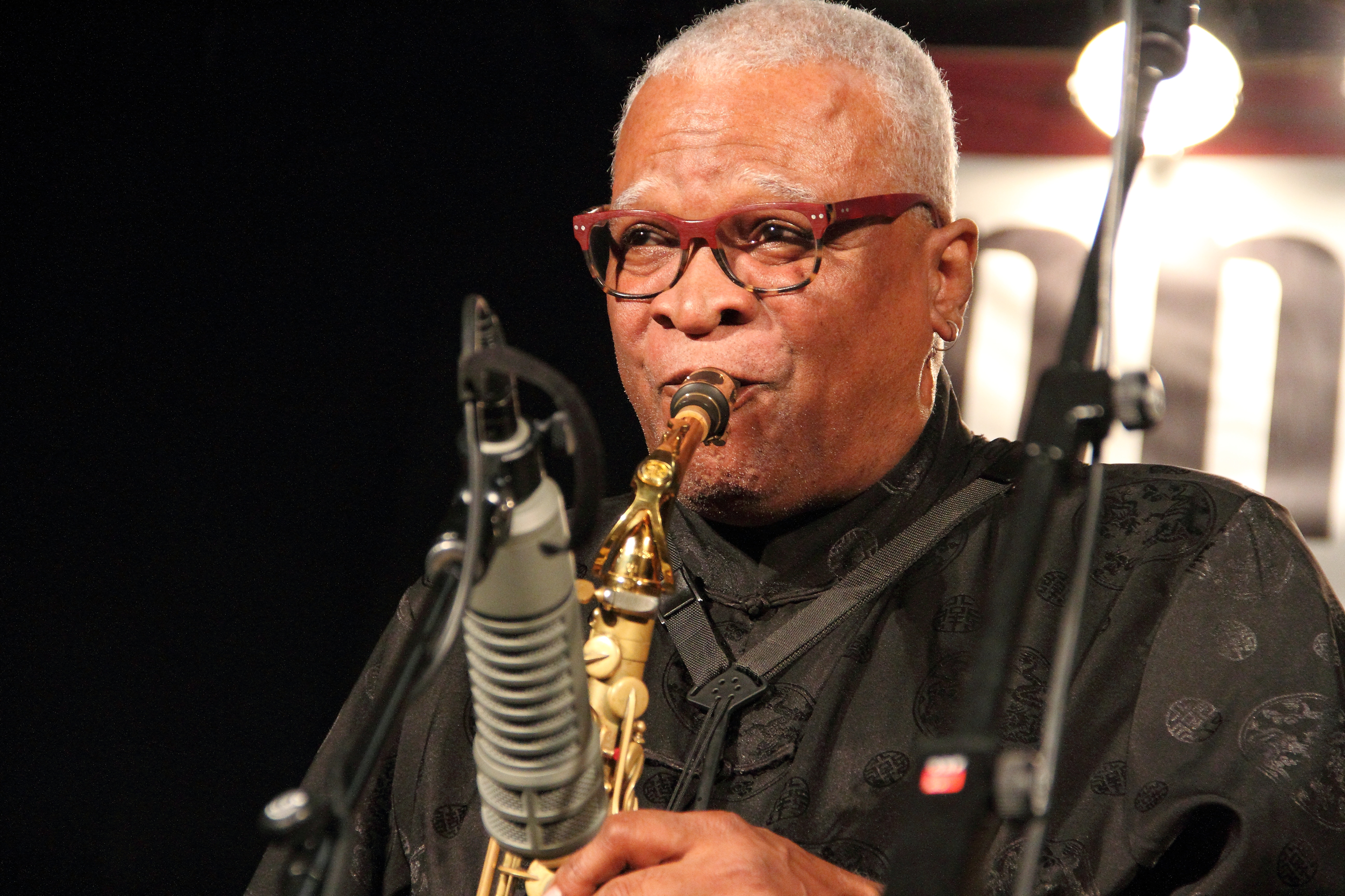 Bobby Watson "Made in America" at INNtöne Jazzfestival 2018.